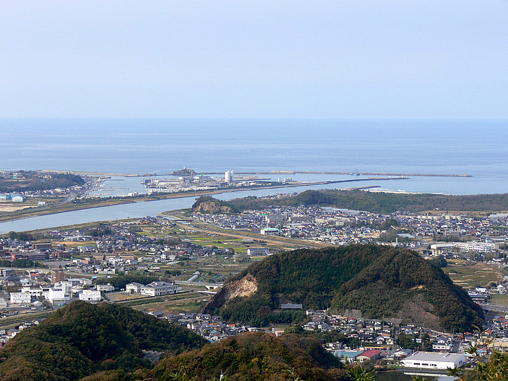 The Tottori port is hoped for more than Kyuushouzan. (Japan Tottori Prefecture Tottori City).).